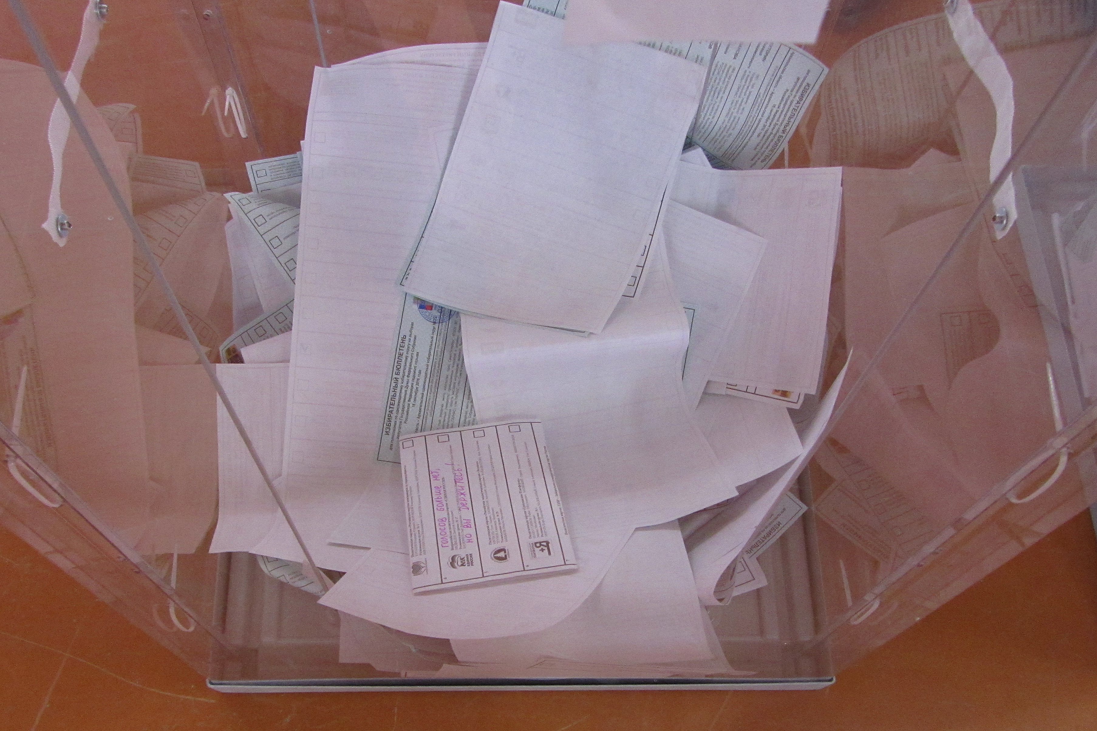 Russian legislative election, 2016